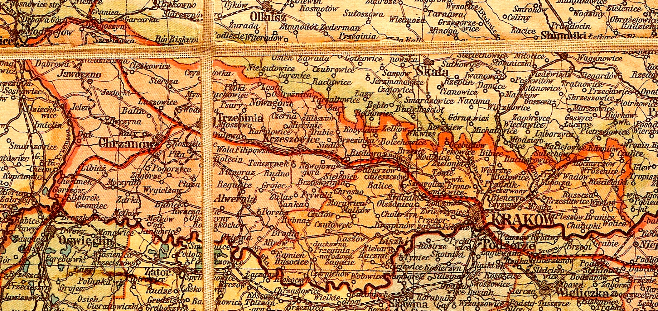 Grand Duchy of Cracow, scan from a map of Galicia published before 1910